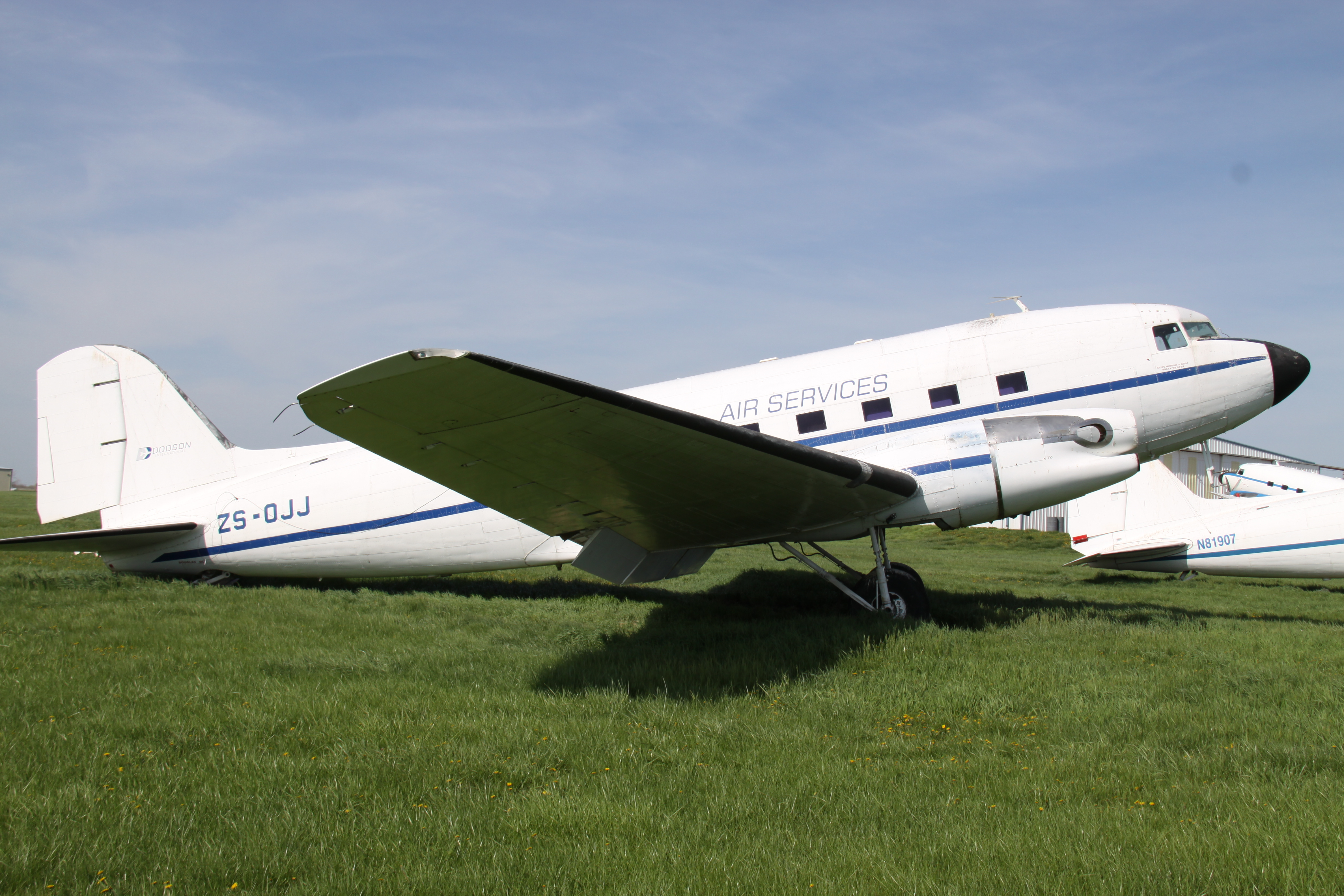 At Ottawa, KS